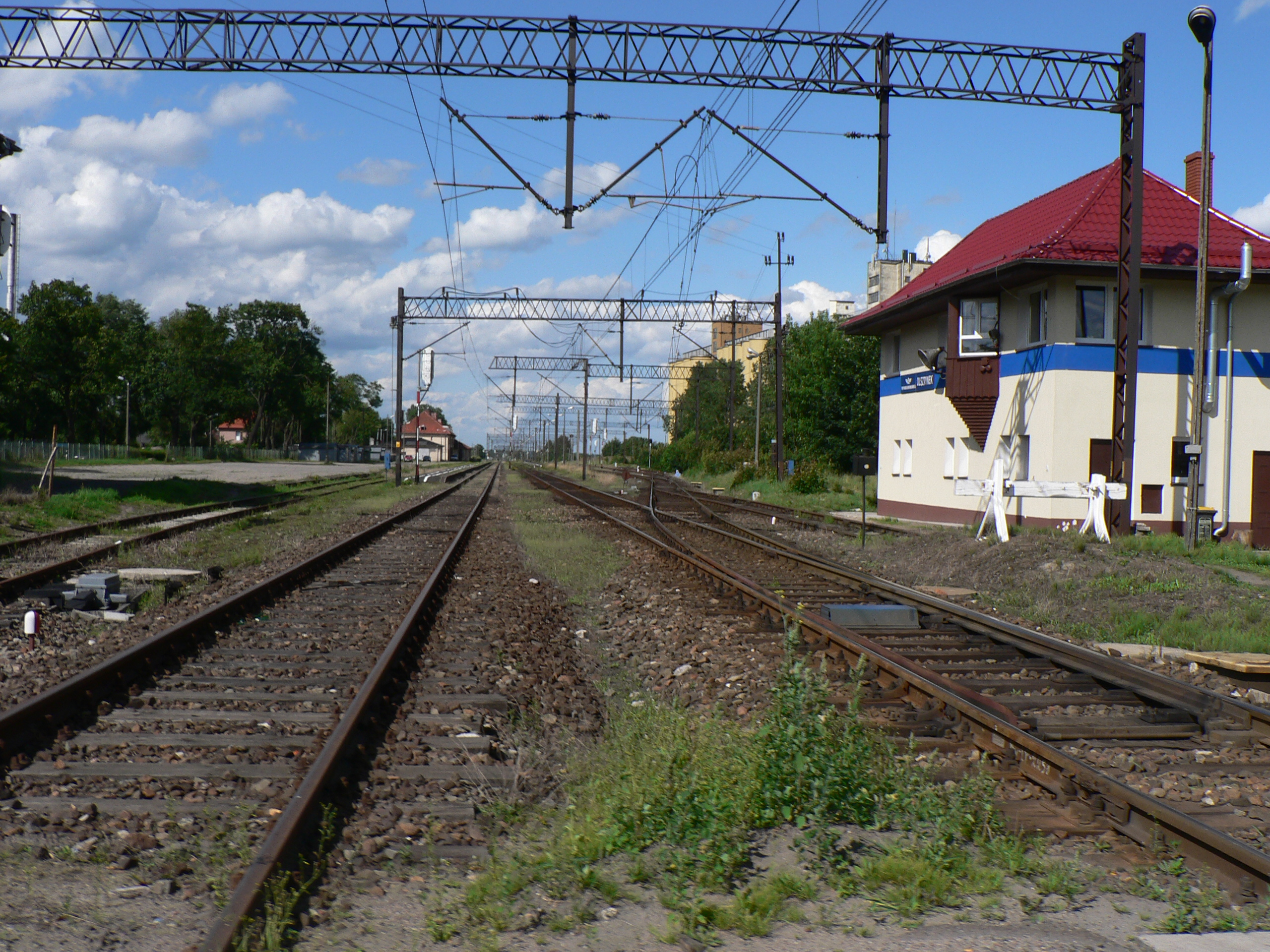 Olsztynek railway station